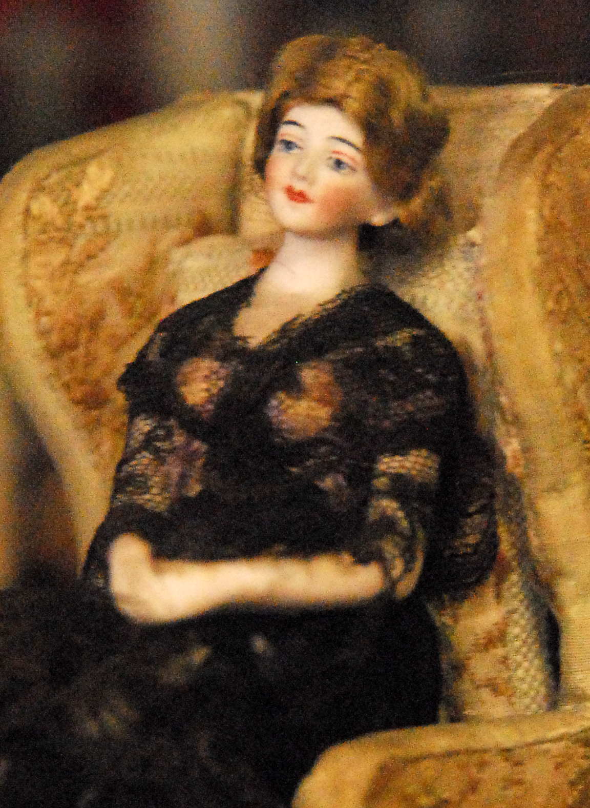 Lita de Ranitz: doll in her dollhouse